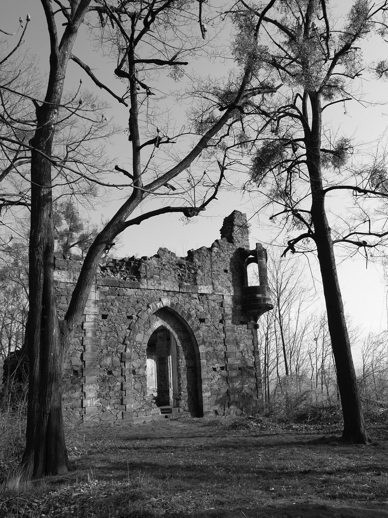 Artificial ruin on Borsberg hill in Dresden-Pillnitz, Saxony.